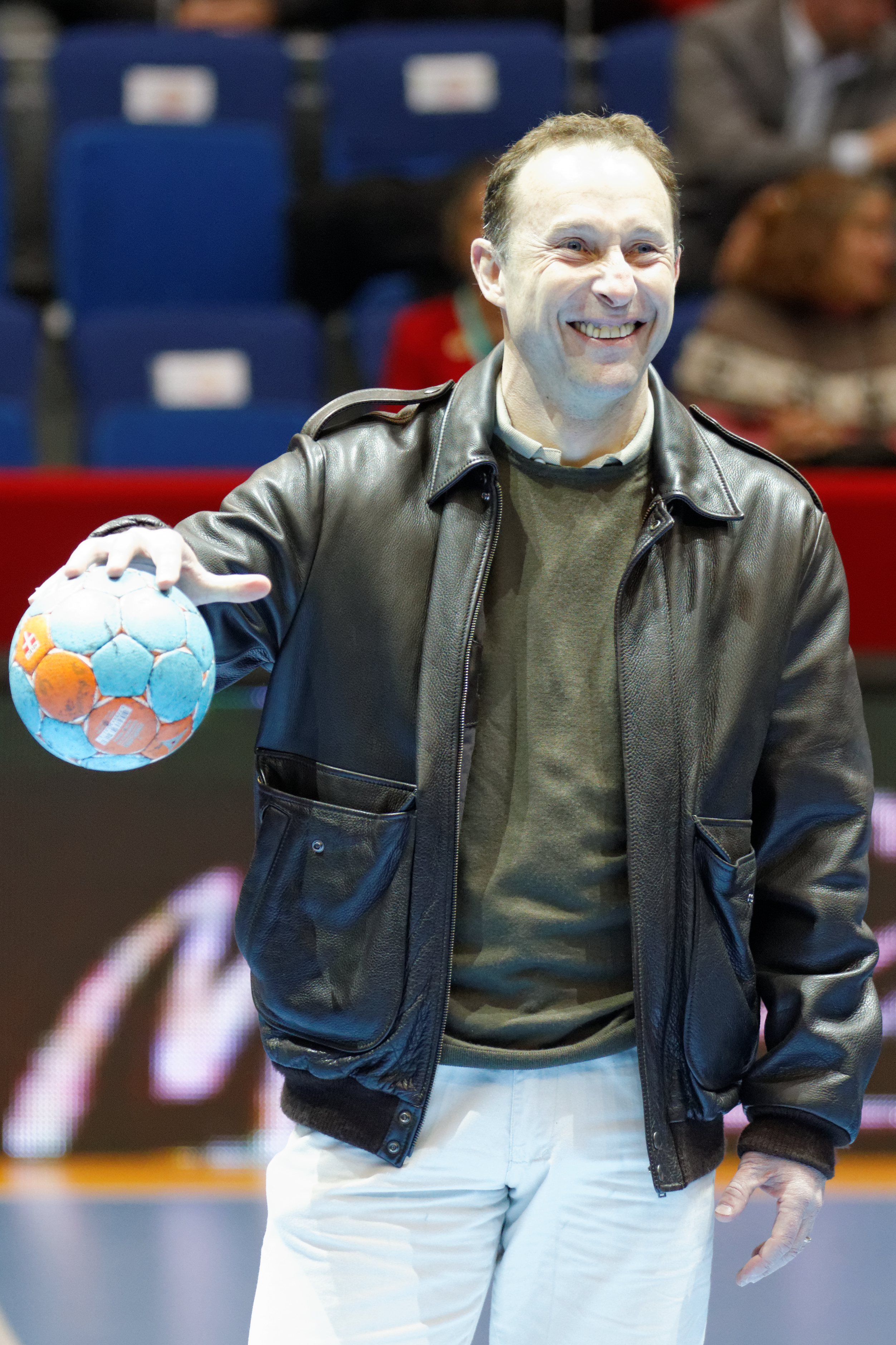 Final of the Women's handball French cup 2013. Jean-Pierre Papin's virtual kick off.